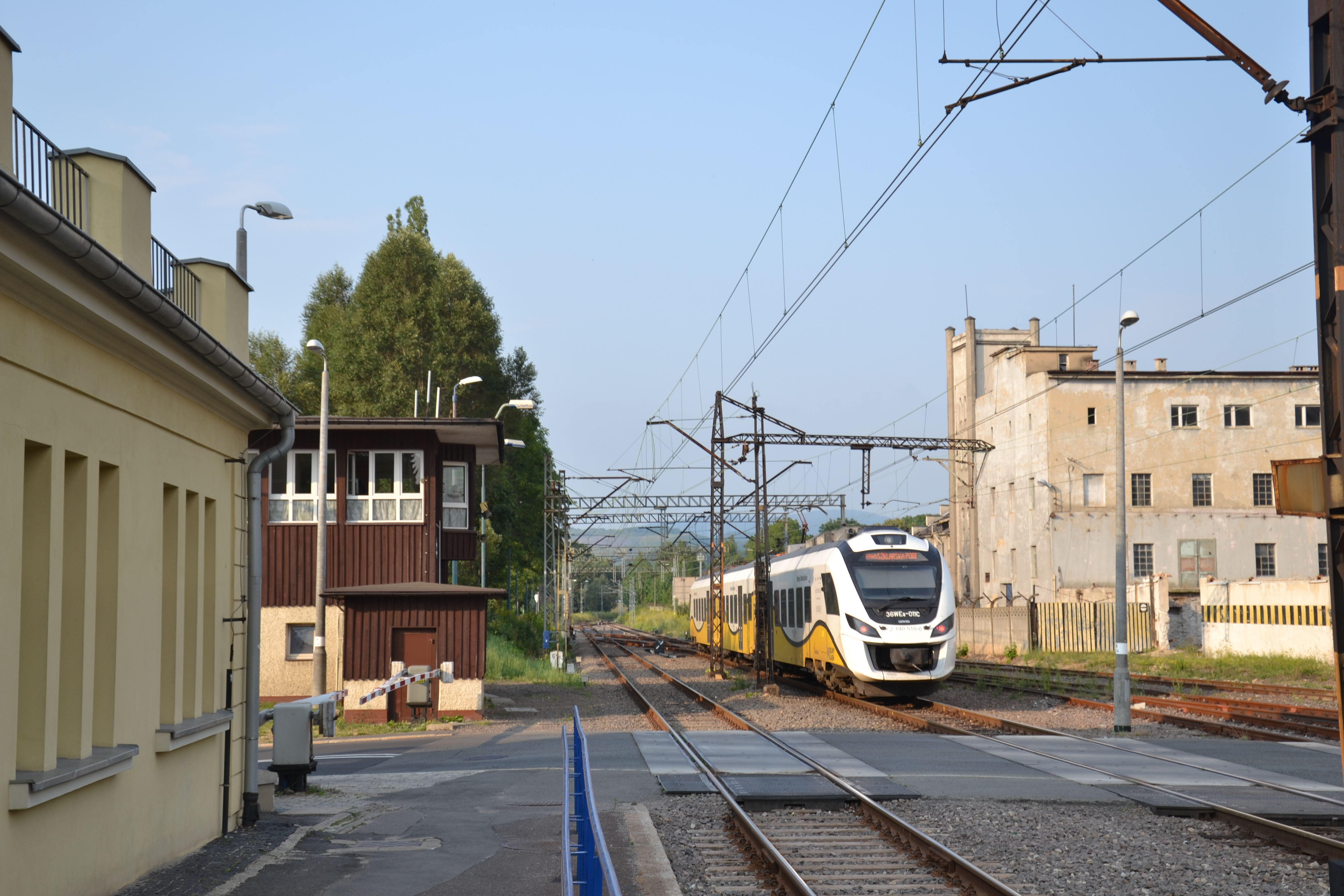 Wyjazd ze stacji Wałbrzych Miasto This photo was taken during Railway Wikiexpedition 2015 set up by Wikimedia Polska Association in cooperation with Fundacja Grupy PKP. You can see all photographs in category Wikiekspedycja kolejowa 2015.